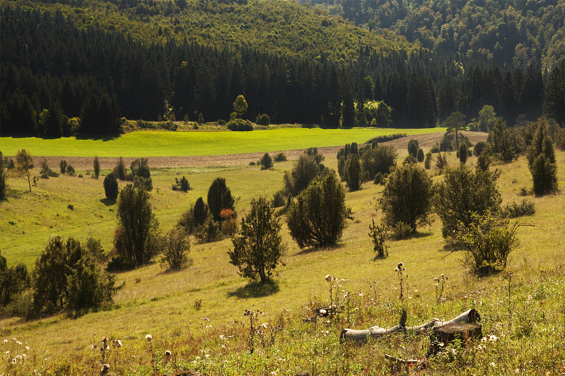 Calcareous grassland. Since 1991 the habitat is legally protected as a Naturschutzgebiet. With regular grazing and cuttings the typical cultural landscape of the Swabian Alb has been reestablished. Statefunding helps to revive sheep keeping.